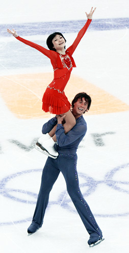 Yuko Kawaguchi and Alexander Smirnov at the 2010 Winter Olympics (FS).